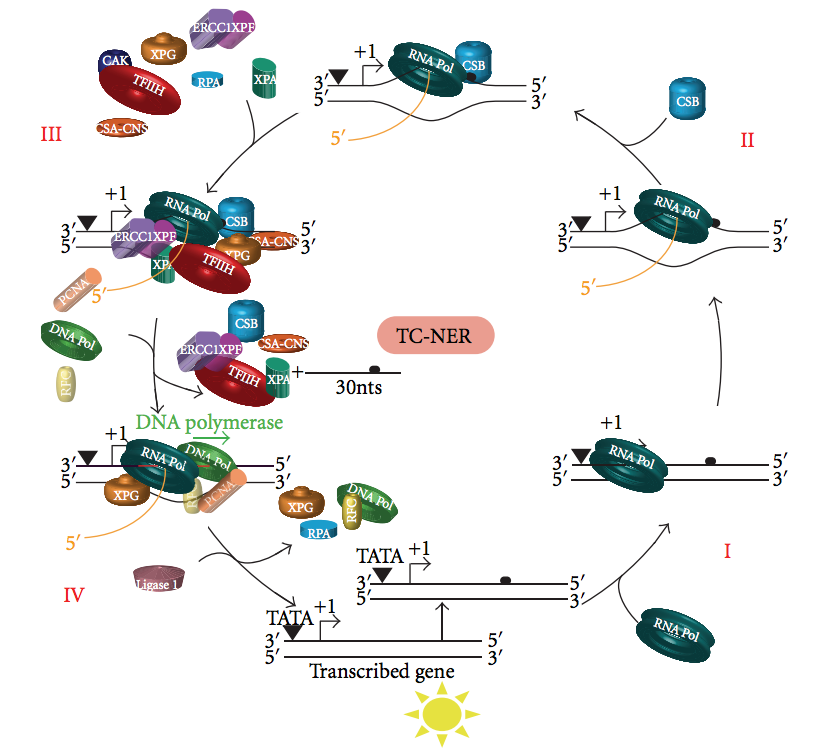 Cartoon depiction of transcription coupled repair, a subpathway of nucleotide excision repair. Shows the binding of involved proteins at various steps (CSB, XPA, RPA, XPG, XPF, ERCC1, CSA-CNS, TFIIH, CAK, PCNA, RFC, Ligase I). Stalled RNA Polymerase II triggers transcription coupled repair.